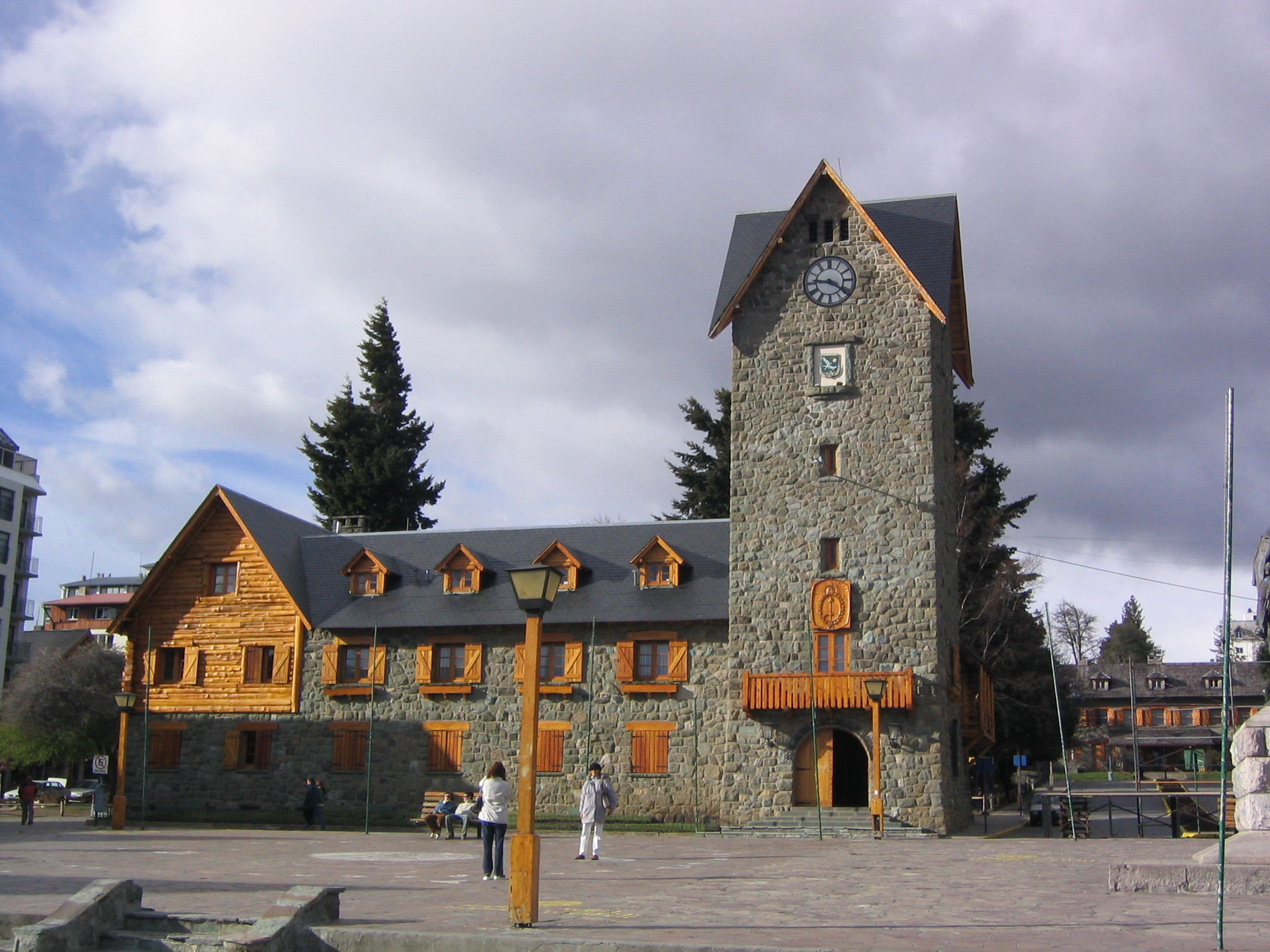 Town Hall in the ski resort of Bariloche, in the Argentinian Andes.